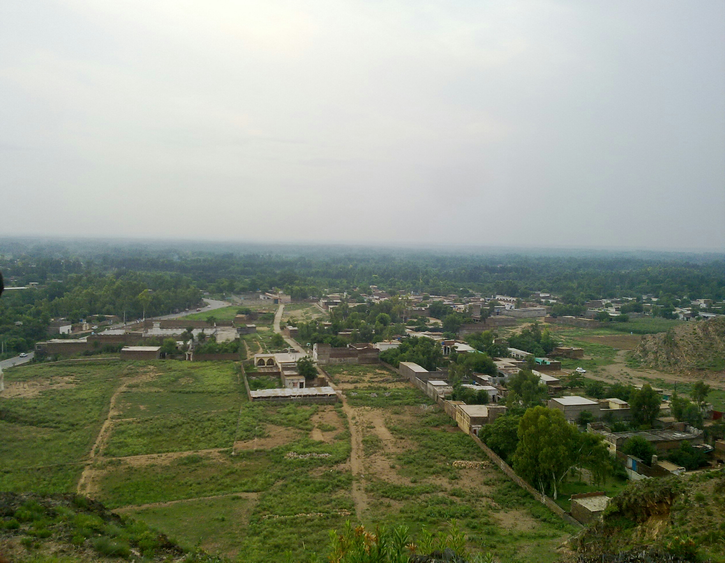 Gul Bahar village is situated on Mardan road. Near the Gul Bahar village there is another village called Jamal Garhi. There are Buddhist ruins.